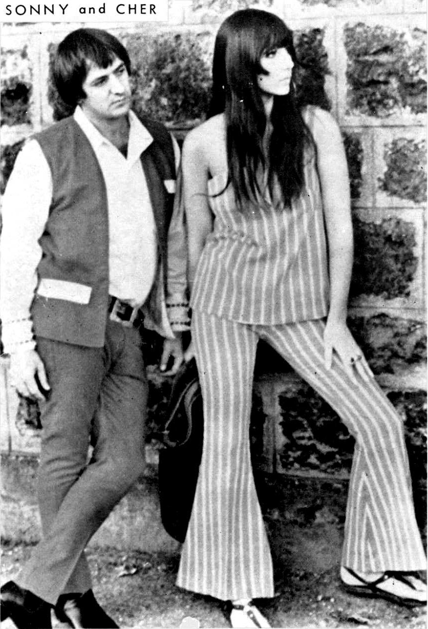 Public domain photograph of Sonny and Cher, circa 1968. Image scanned from the front inside cover of Teen-In, number 1, published by Tower Comics. Image has fallen into the public domain due to the original publisher's failure to secure copyright (see permissions notice below).